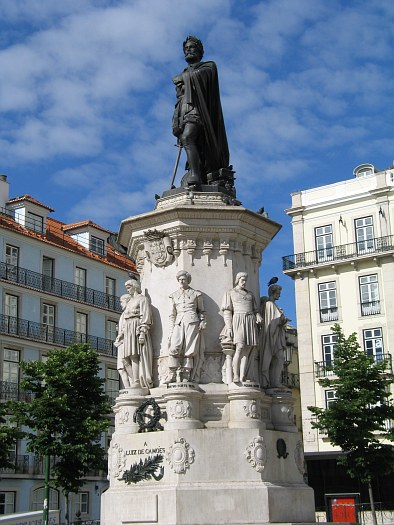 Statue of Luís de Camões, Lisbon, Portugal.